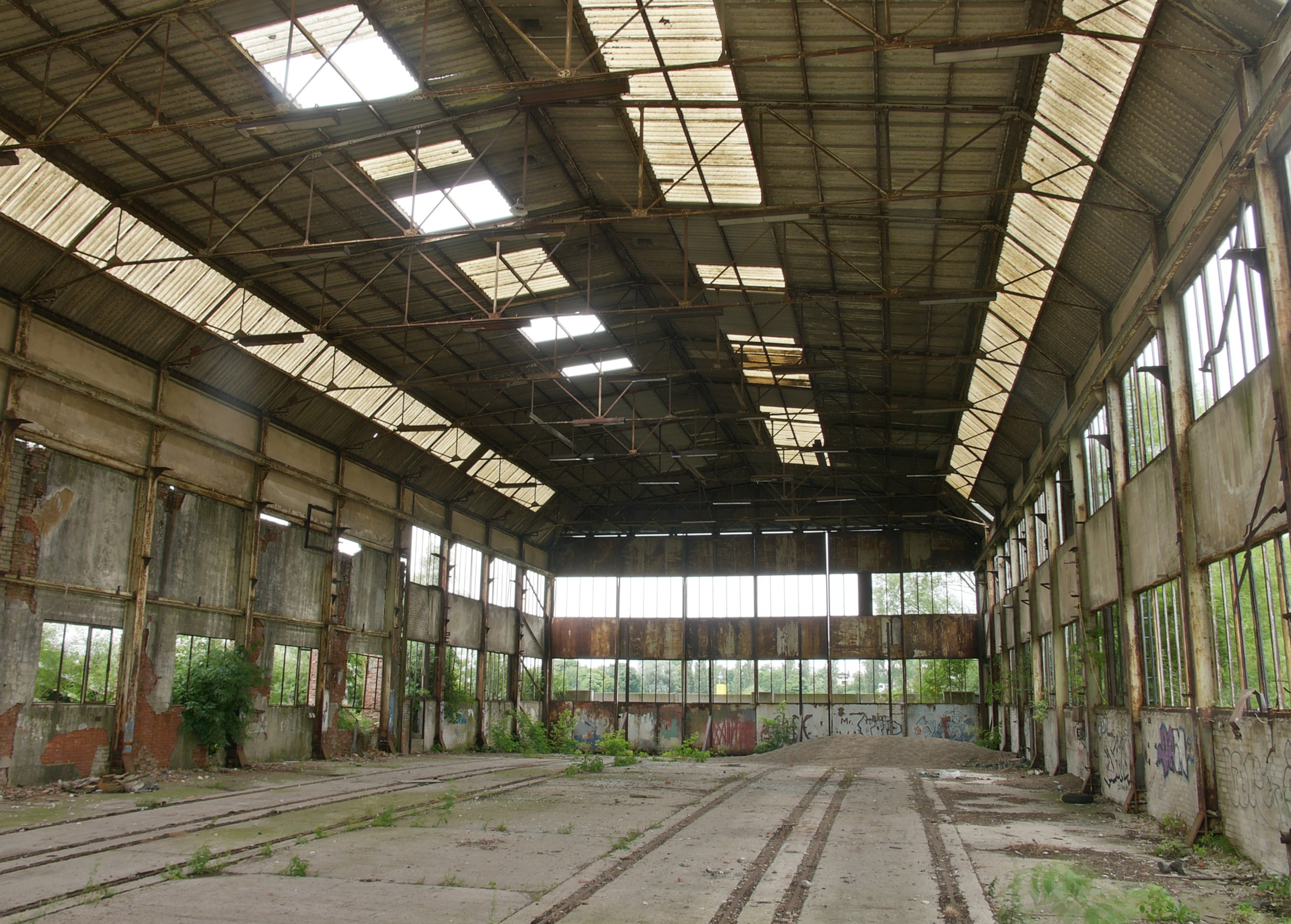 Old shipyard at the river Weser north of Bremen